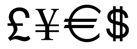 euro yen dollar pound